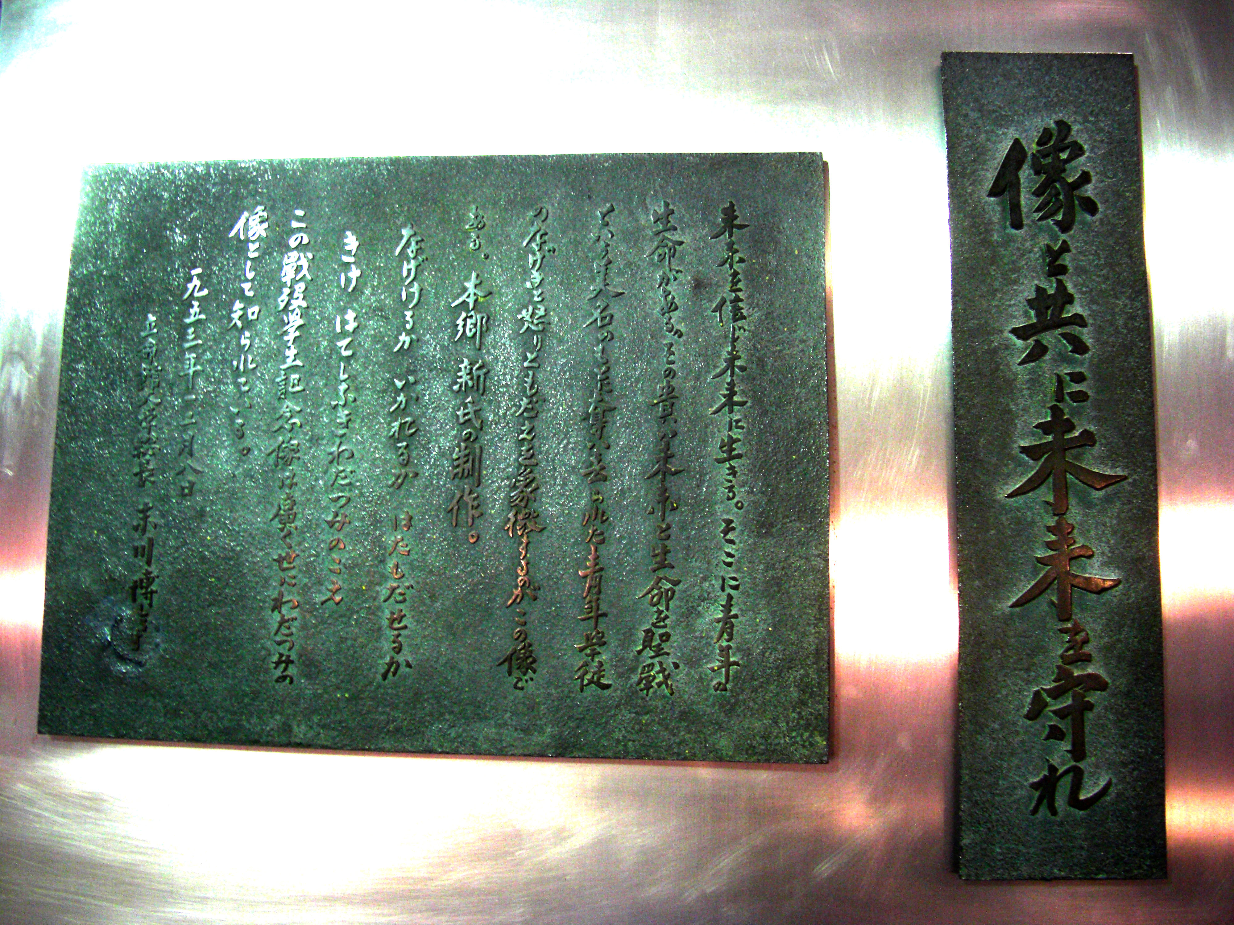 Wadatsumi Statue Inscription,56-1 Tojiinkitamachi Kita-ku Kyoto-City JAPAN.